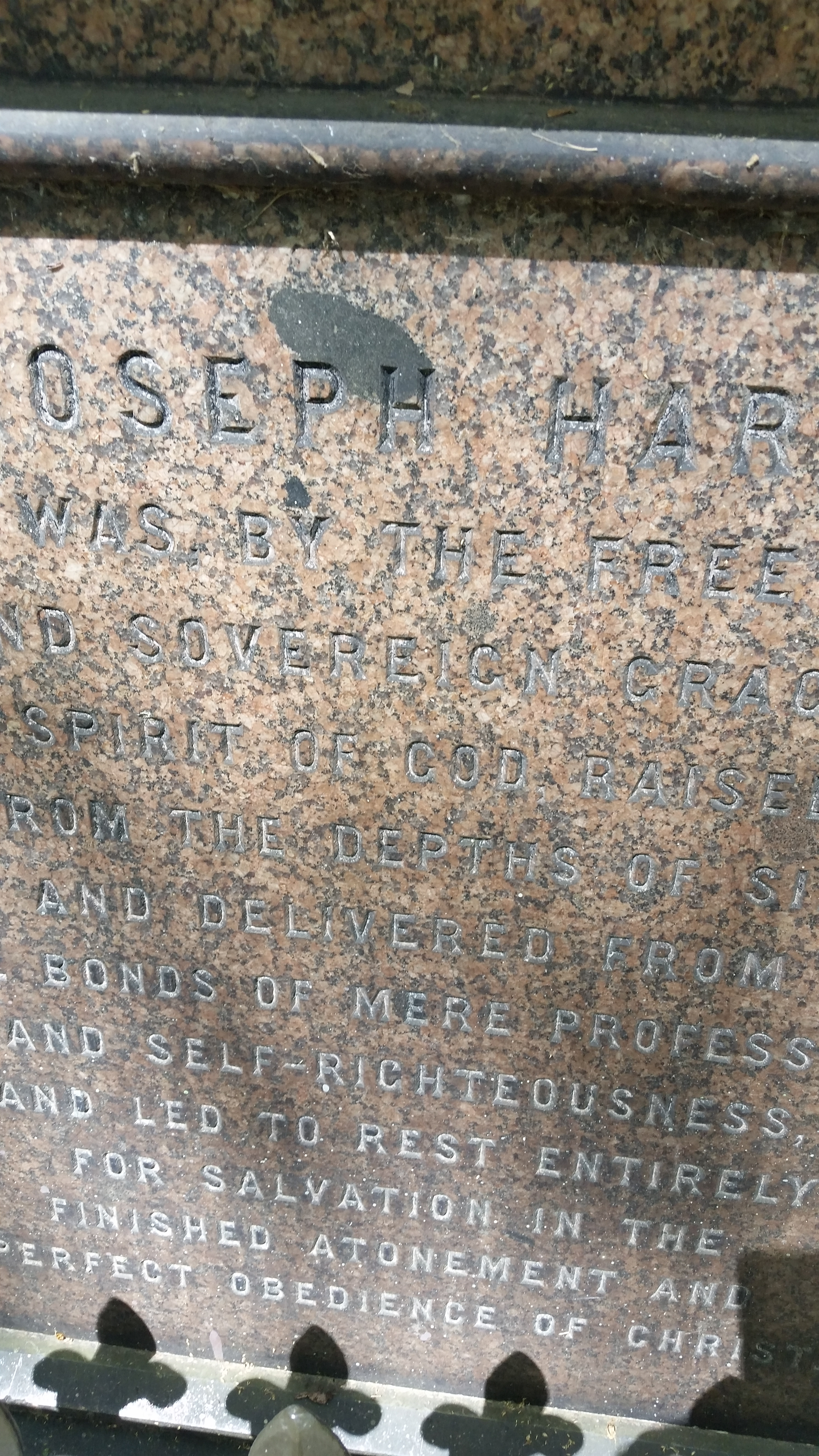 Tombstone story of hymn writer Joseph Hart found in Bunhill Fields cemetery London.